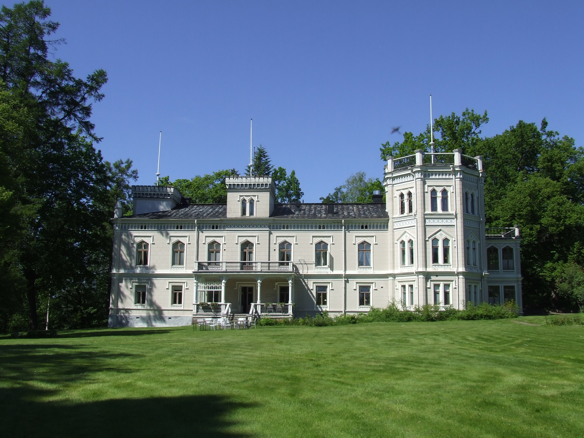 Karhulan hovi/Karhula manor in Kotka, Finland